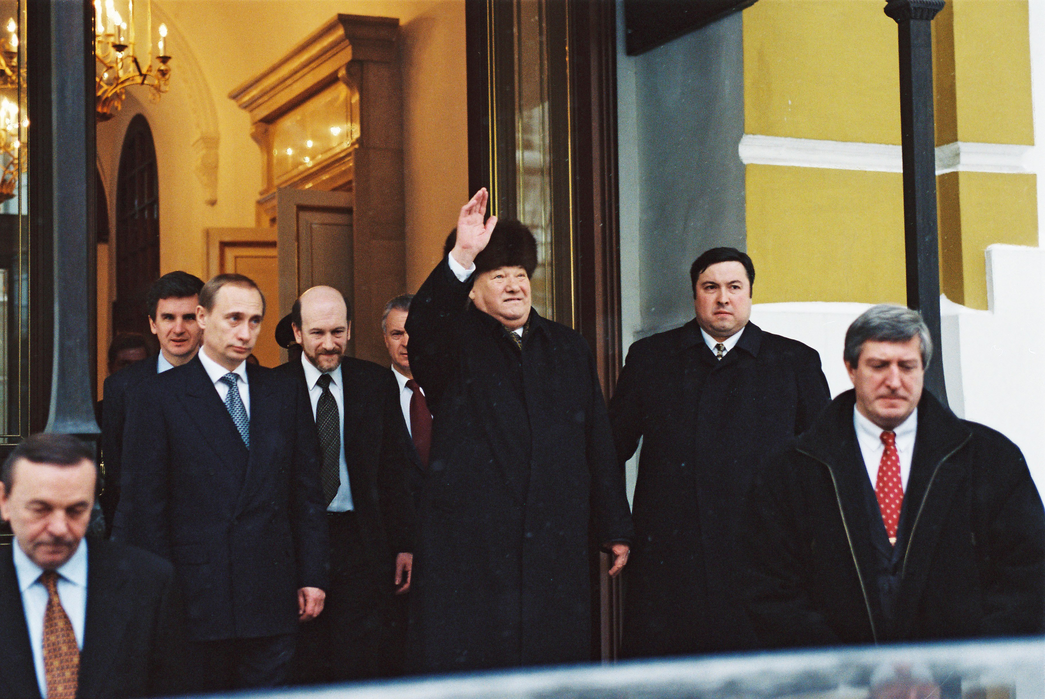 MOSCOW. Russian President Boris Yeltsin announced his early resignation as head of state and the temporary transfer of his powers to Prime Minister Vladimir Putin. Photograph: Boris Yeltsin leaving the Kremlin.